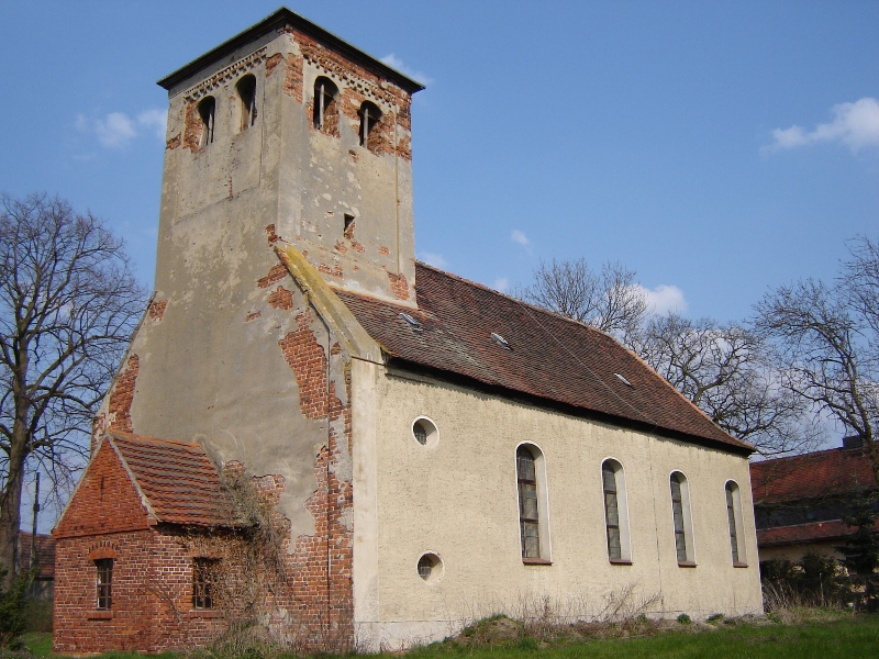 Protestant church of Bergzow, Saxony-Anhalt